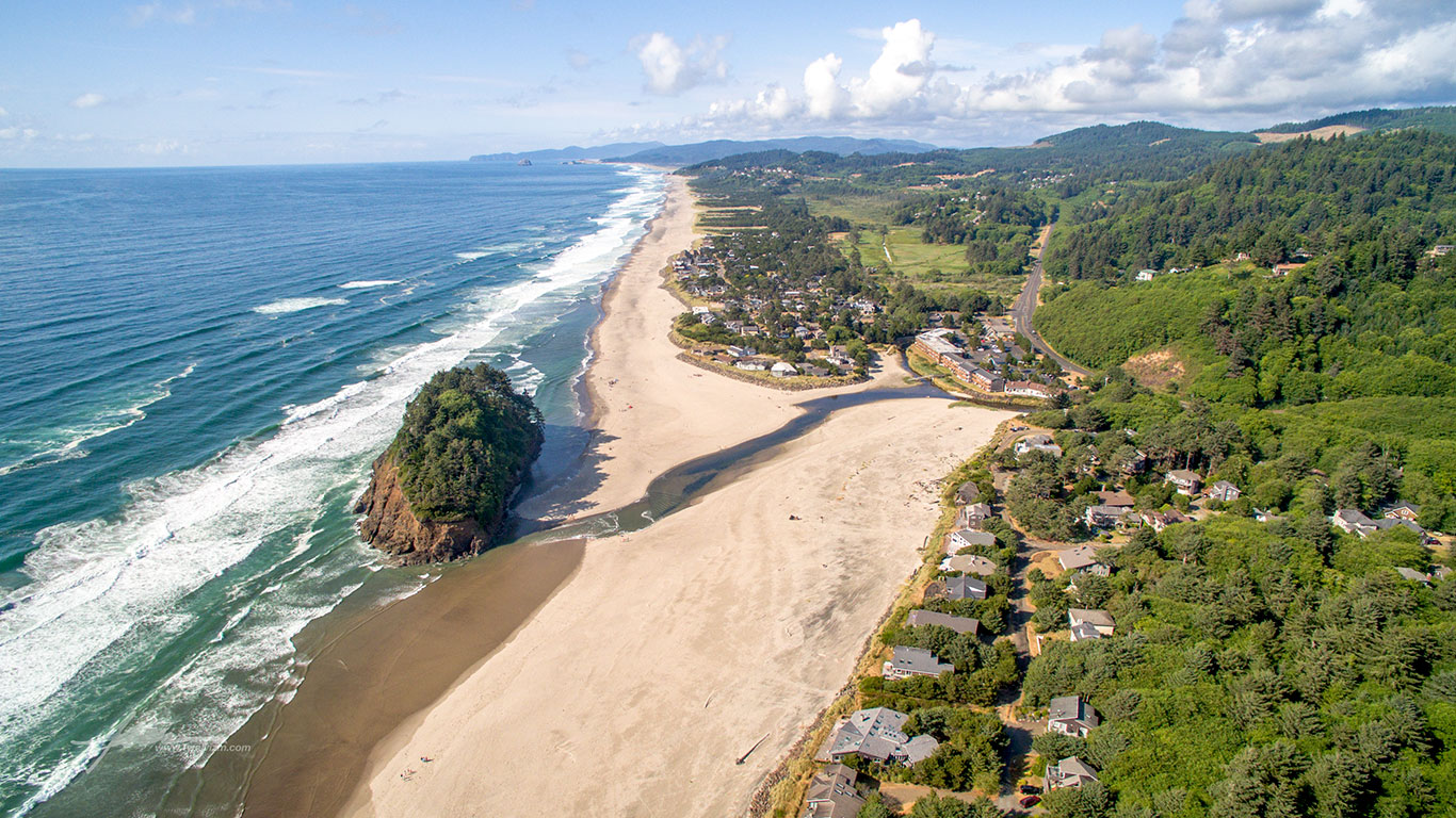 Aerial view of Neskowin, Proposal Rock, and Salmon River.